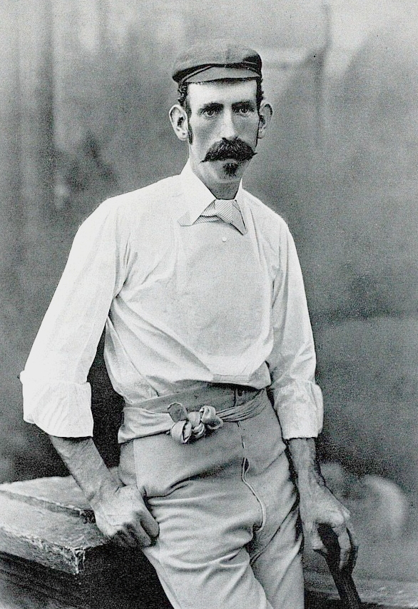 Sport. Cricket. Circa 1895. Louis Hall, Yorkshire, (1873-1894) during his career he hit 1,000 runs in a season on 4 occasions.